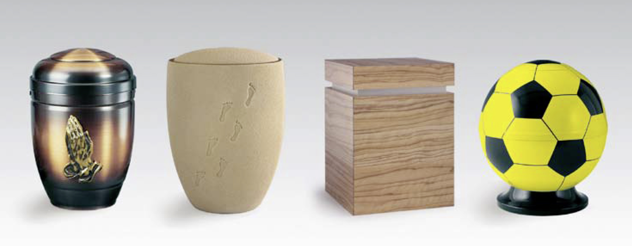 Willibald Völsing KG, Werksfoto